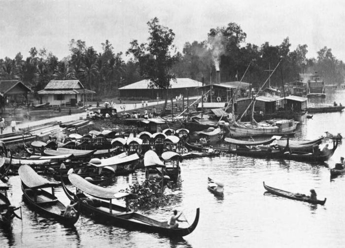 Proas and a paddle steamer on the riverside